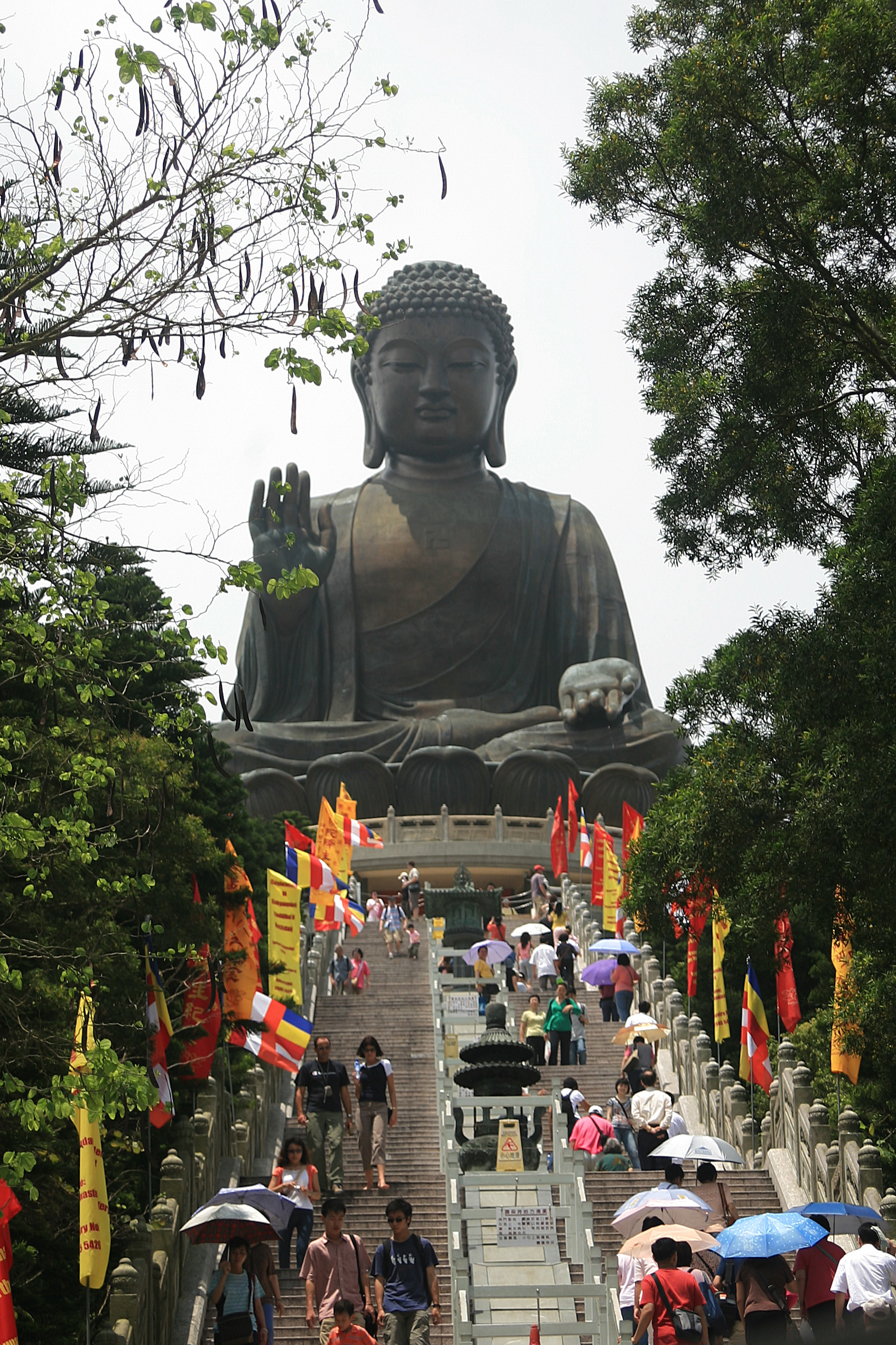 The giant Buddha statue at the Po Lin Monastery dwarfs the faithful visitors ascending its mountaintop perch.